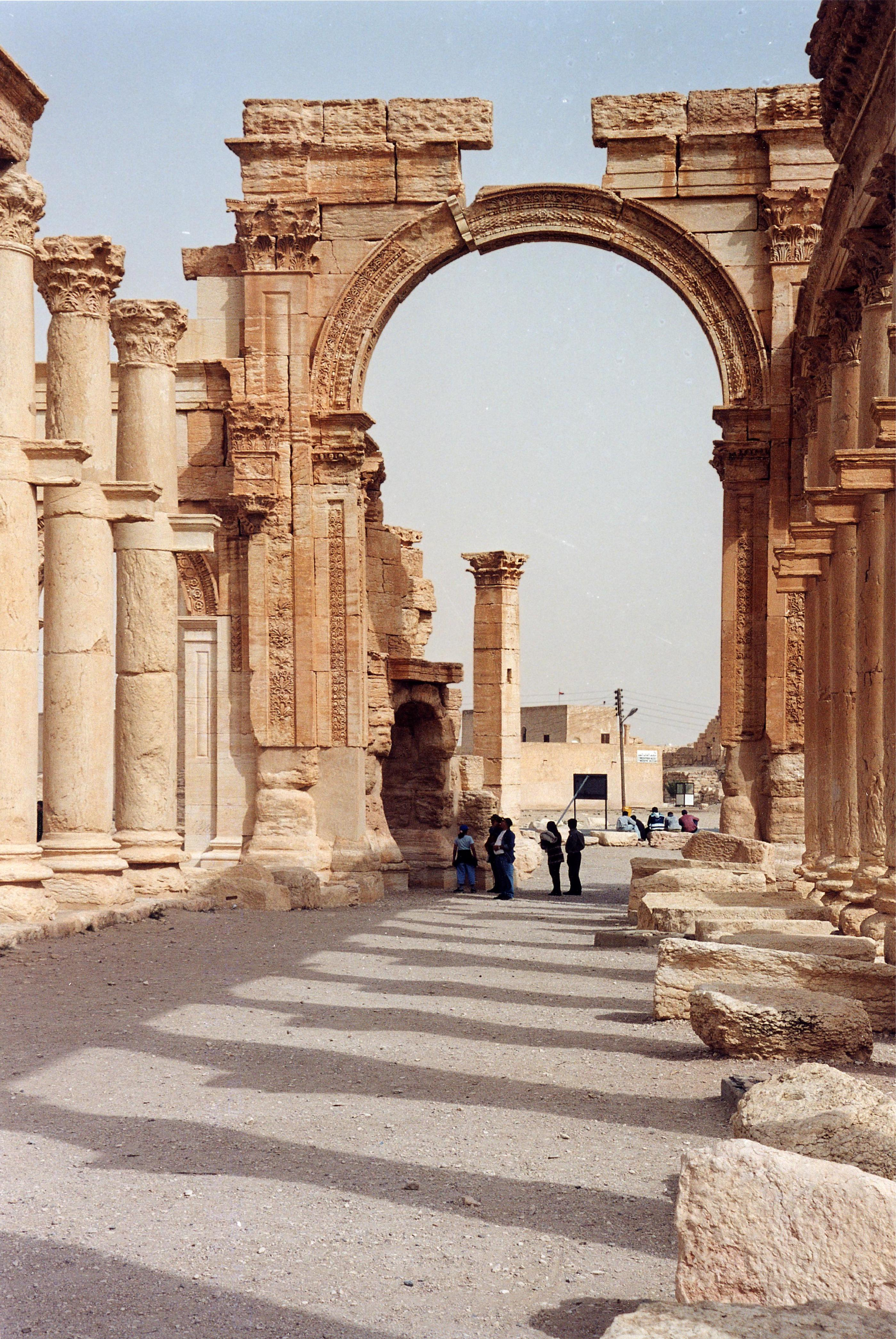 Monumental Arch of Palmyra, Palmyra in 2002